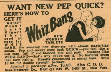 1926 US advertisement "Whiz Bang!" From quasi-legal voyeurism magazine. Wording implies aphrodisiac qualities for product in the slang of the time with plausible legal deniability.